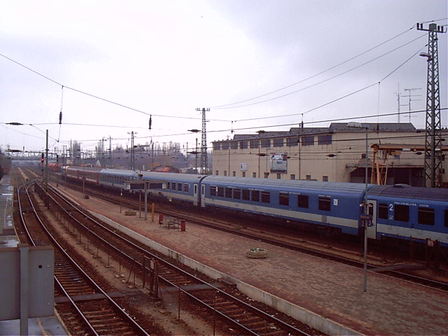 Arrabona international train in Komárom, Hungary